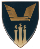 Regiment Sasolburg emblem